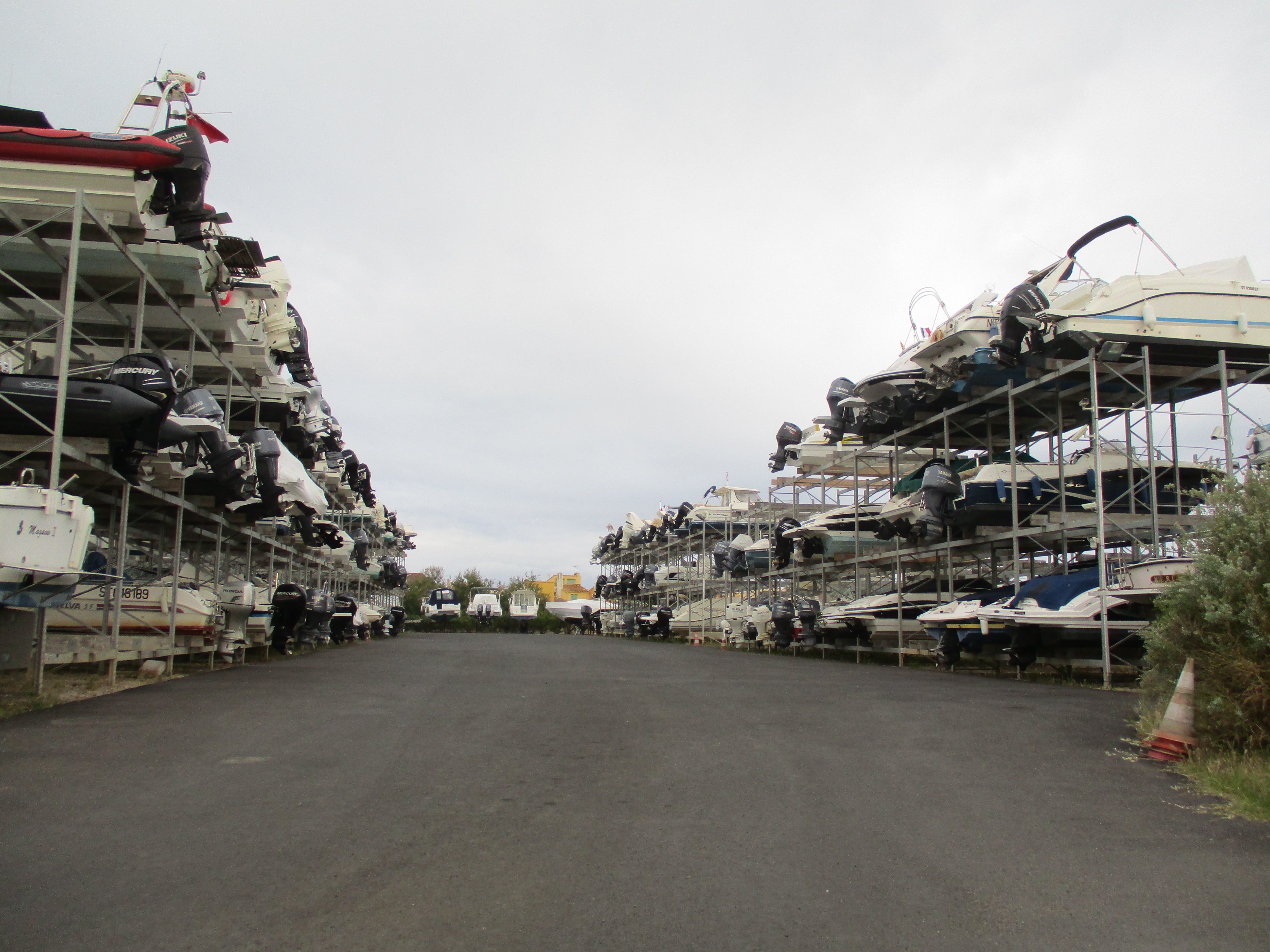 dry garage harbour, economics purpose racks, numerous boats versus little spot